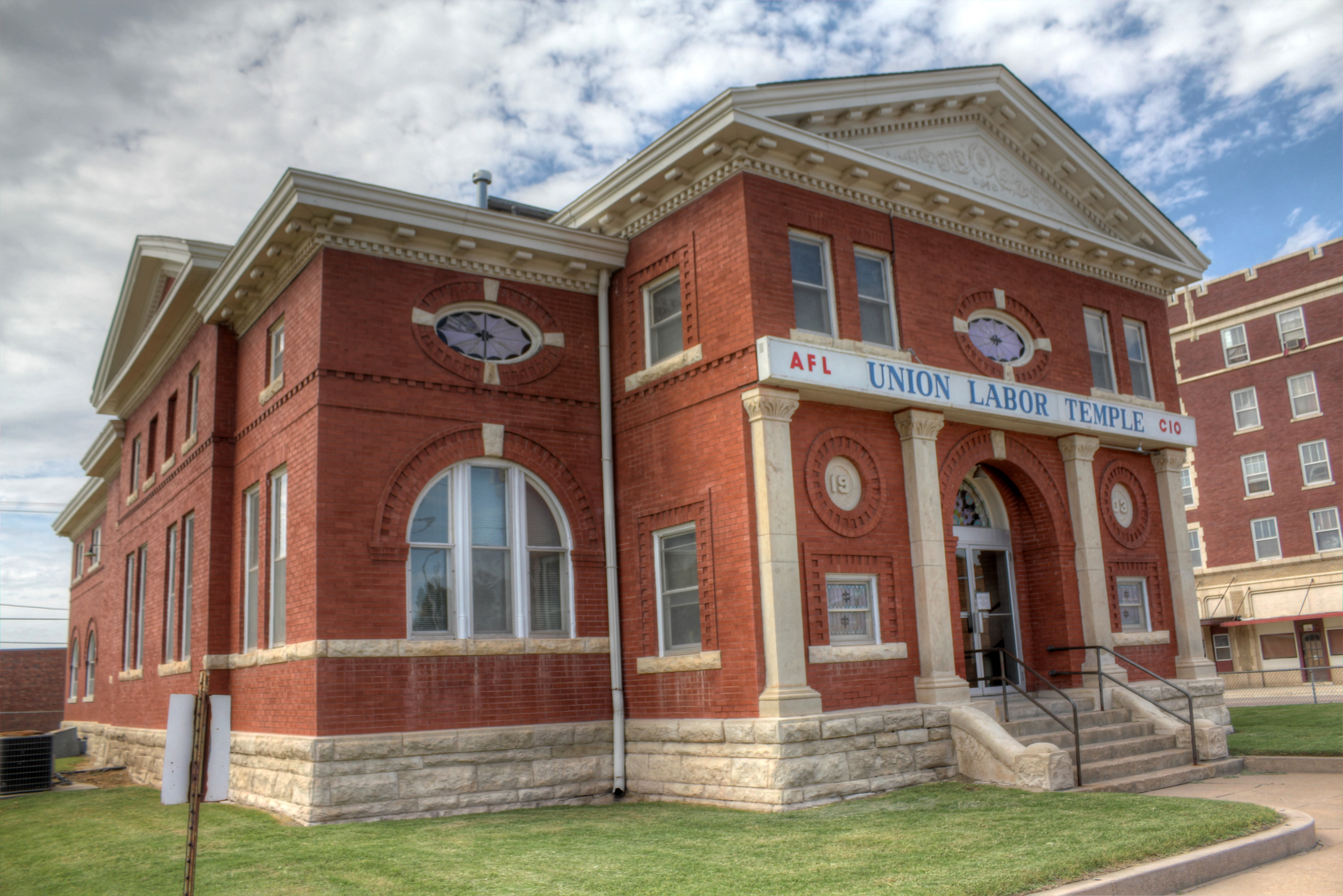 Hutchinson Public Carnegie Library, 427 N. Main Hutchinson